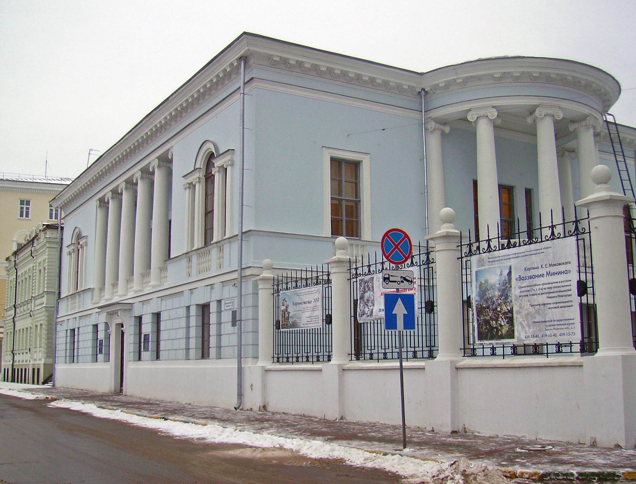 Nizhny Novgorod Art Museum